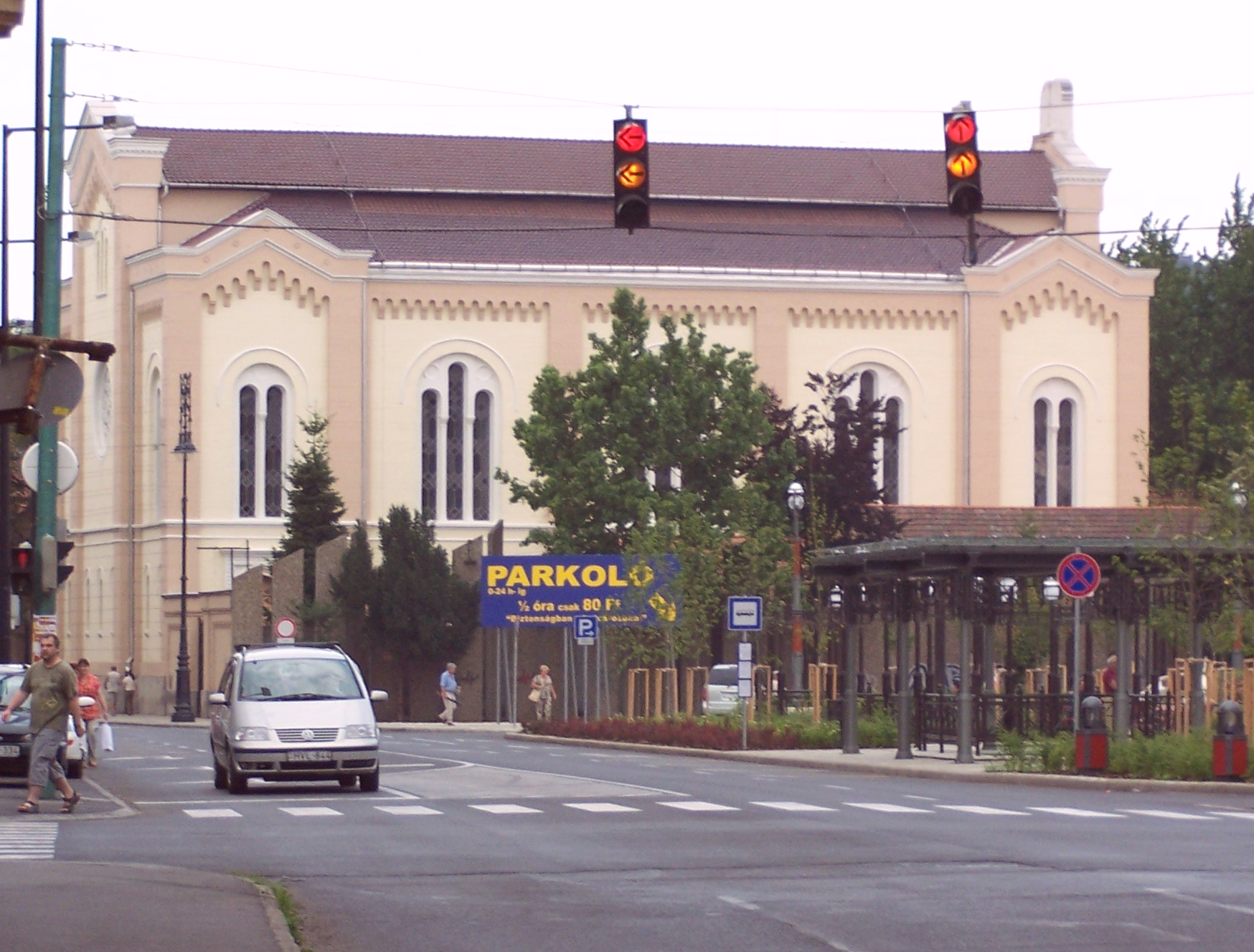 The synagogue on Kazinczy street, Miskolc, Hungary